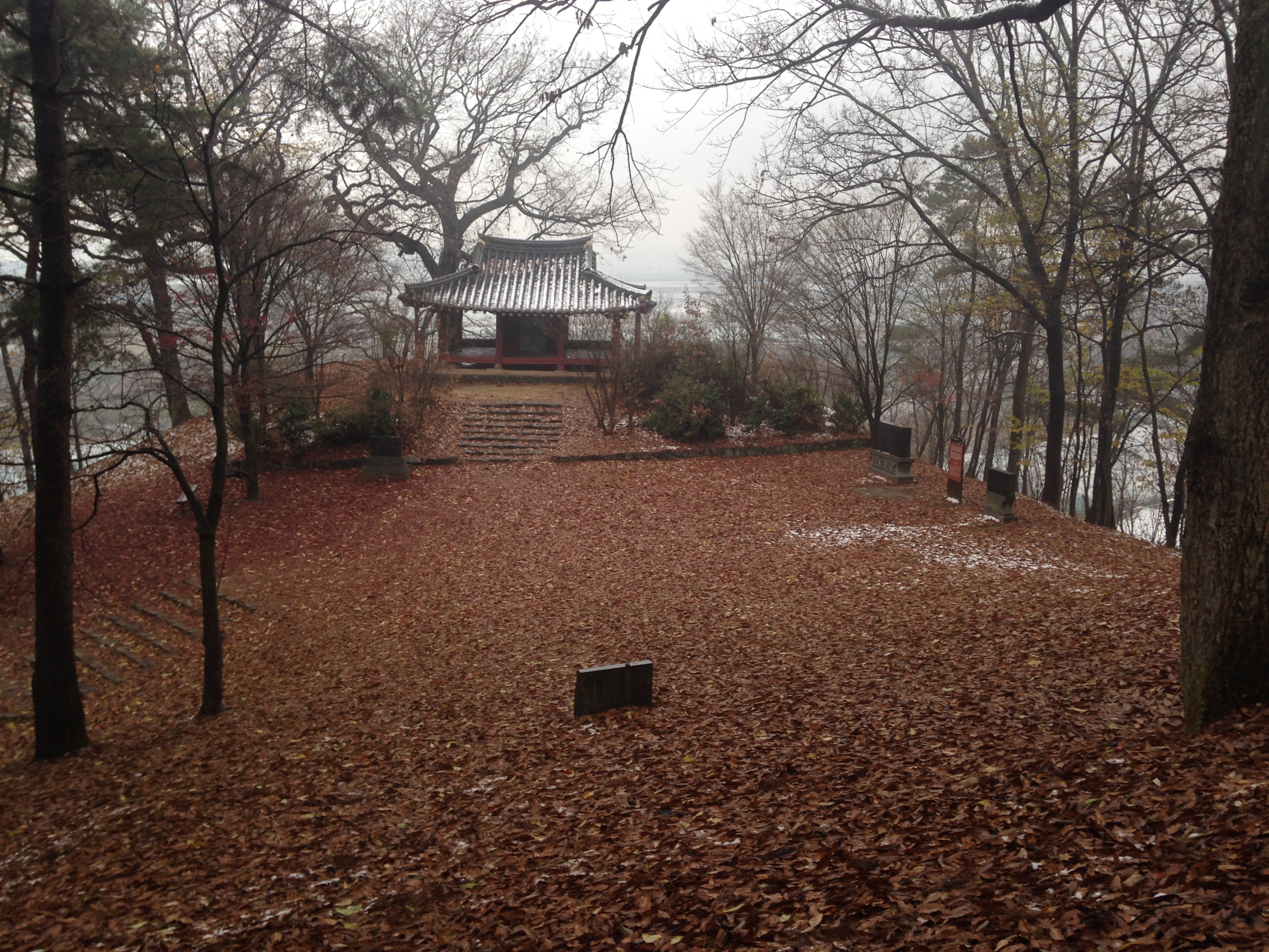 whole view of Myeonangjeong